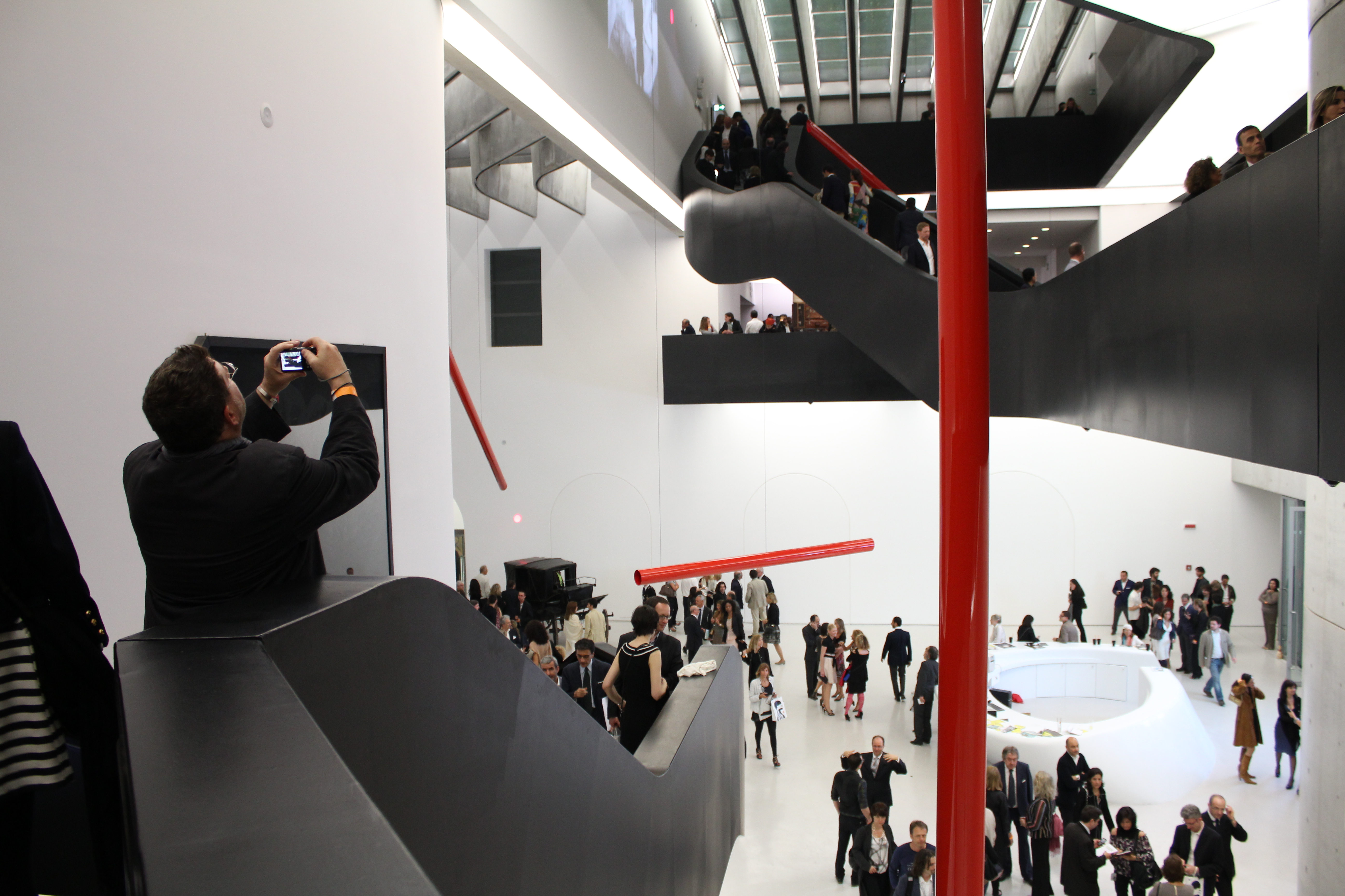 Opening night of the MAXXI museum for contemporary arts in Rome, Italy. Architect: Zaha Hadid